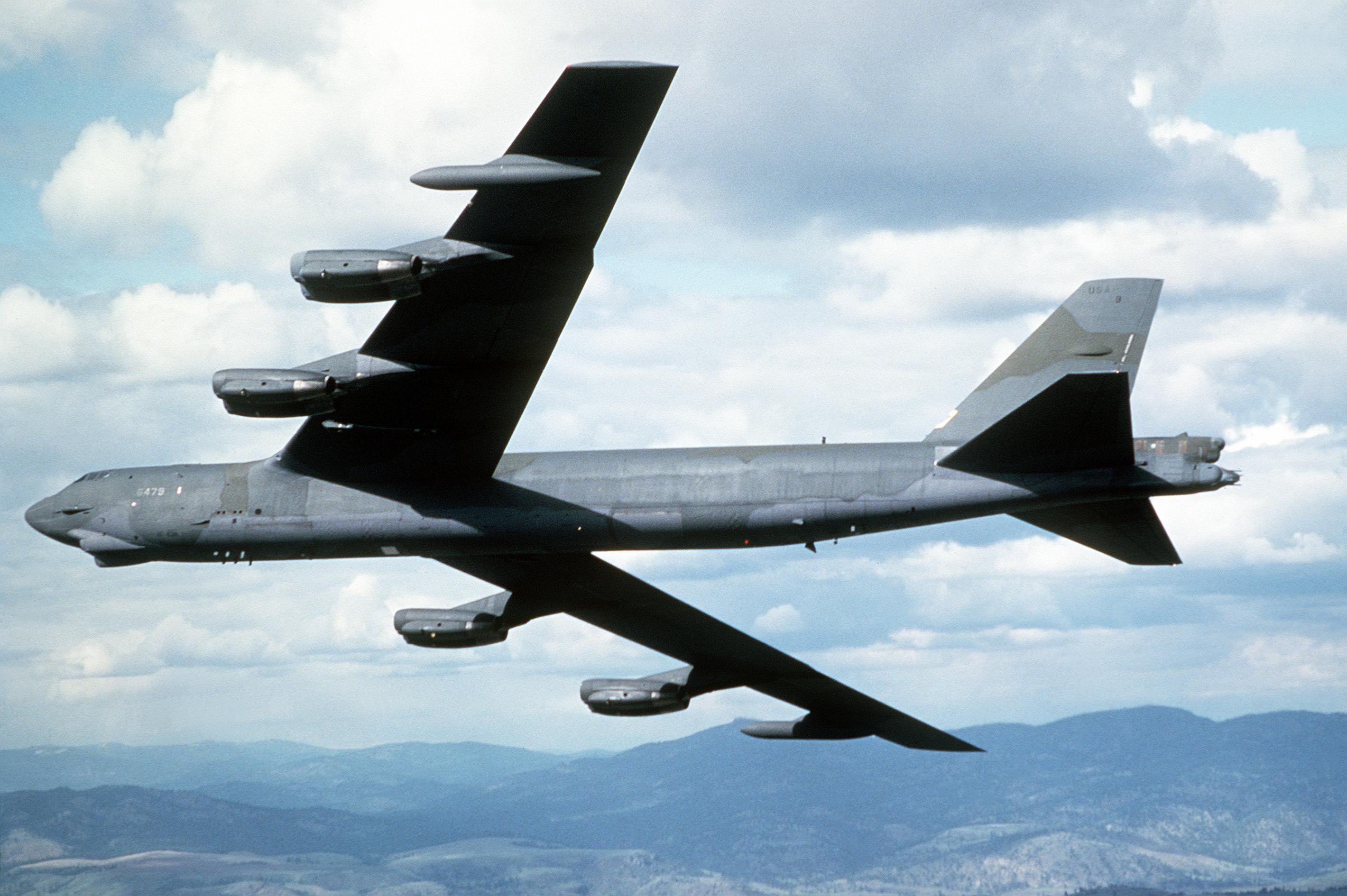 An air-to-air left underside view of the 92nd Bombardment Wing's new camouflaged B-52G Stratofortress aircraft. This B-52G is the first fully camouflaged aircraft of its type.